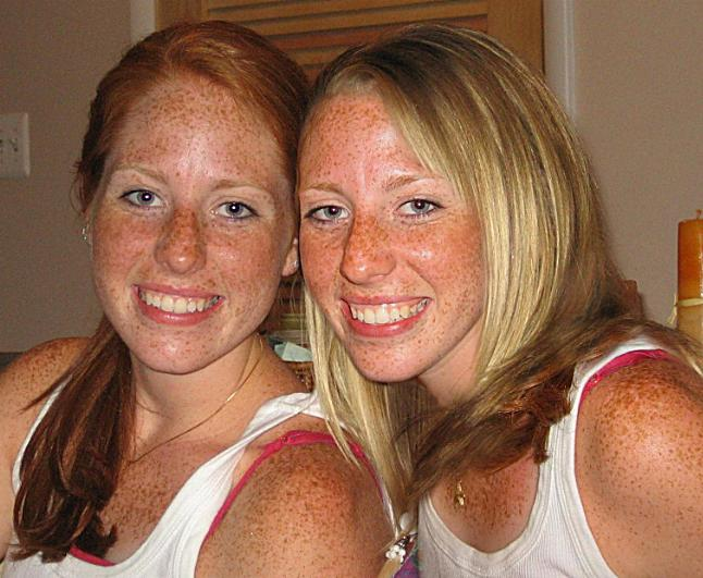 Heavily freckled women.